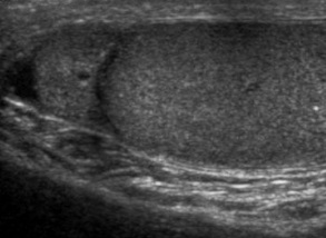 Scrotal ultrasonography with a normal head of the epididymis.